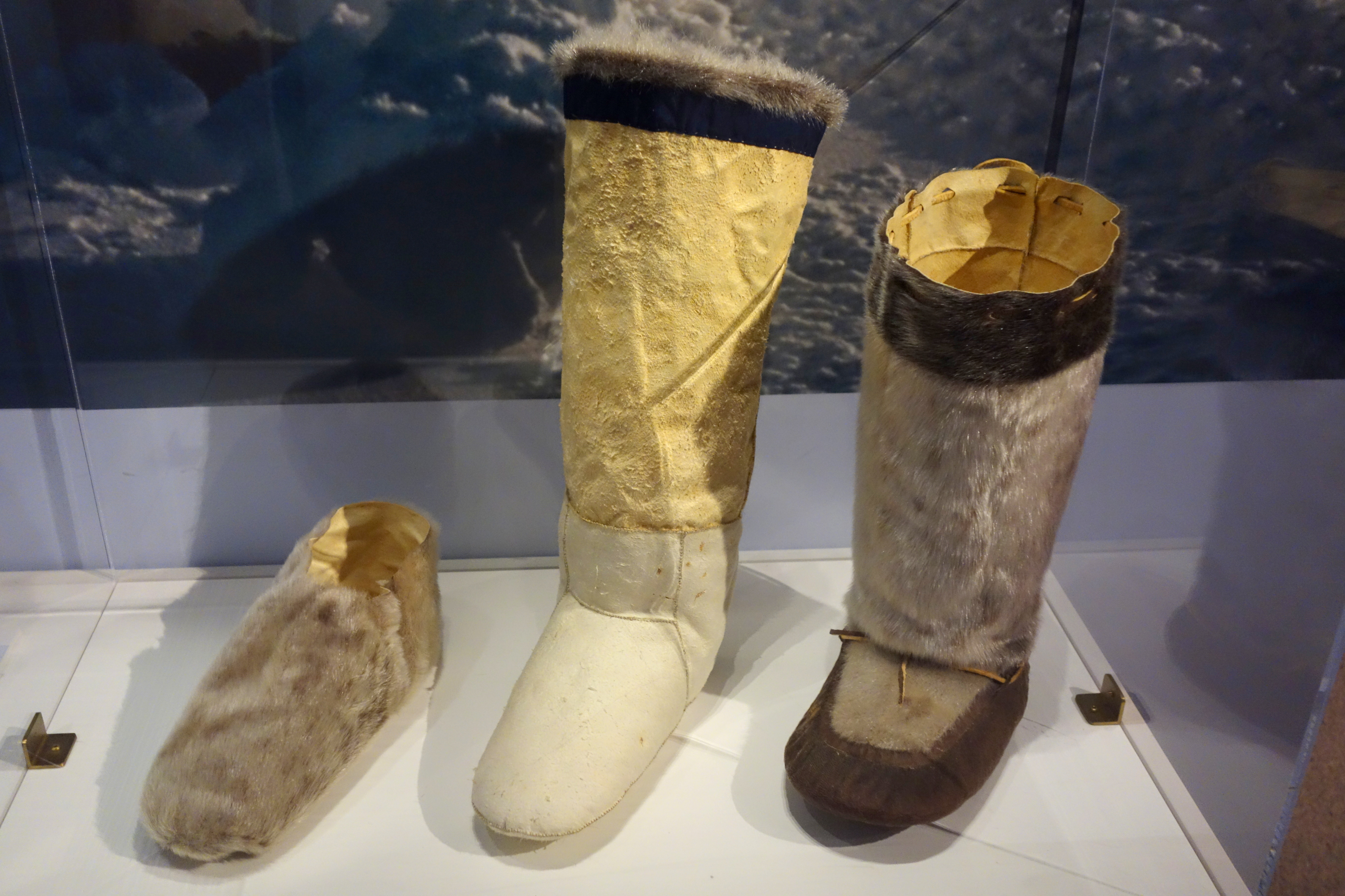 Exhibit in the Bata Shoe Museum, Toronto, Ontario, Canada. The museum permitted photography without restriction.